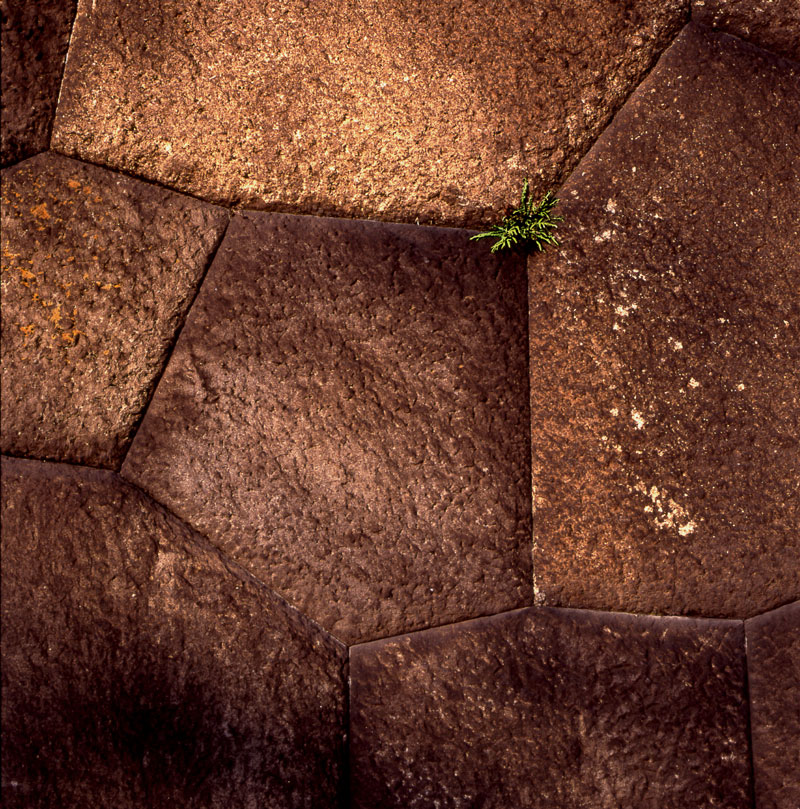 A closeup of the stone wall in Imperial Palace, Tokyo, Japan.